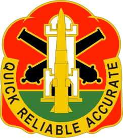 56th Field Artillery Command distinctive unit insignia